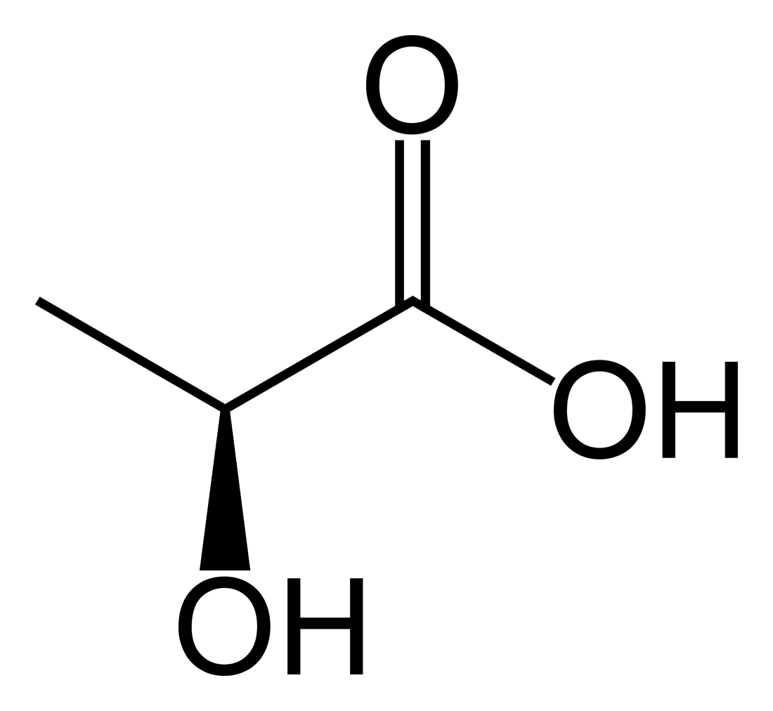 Lactic-acid-skeletal: The skeletal formula of L-(+)-lactic acid, also known as (S)-lactic acid.